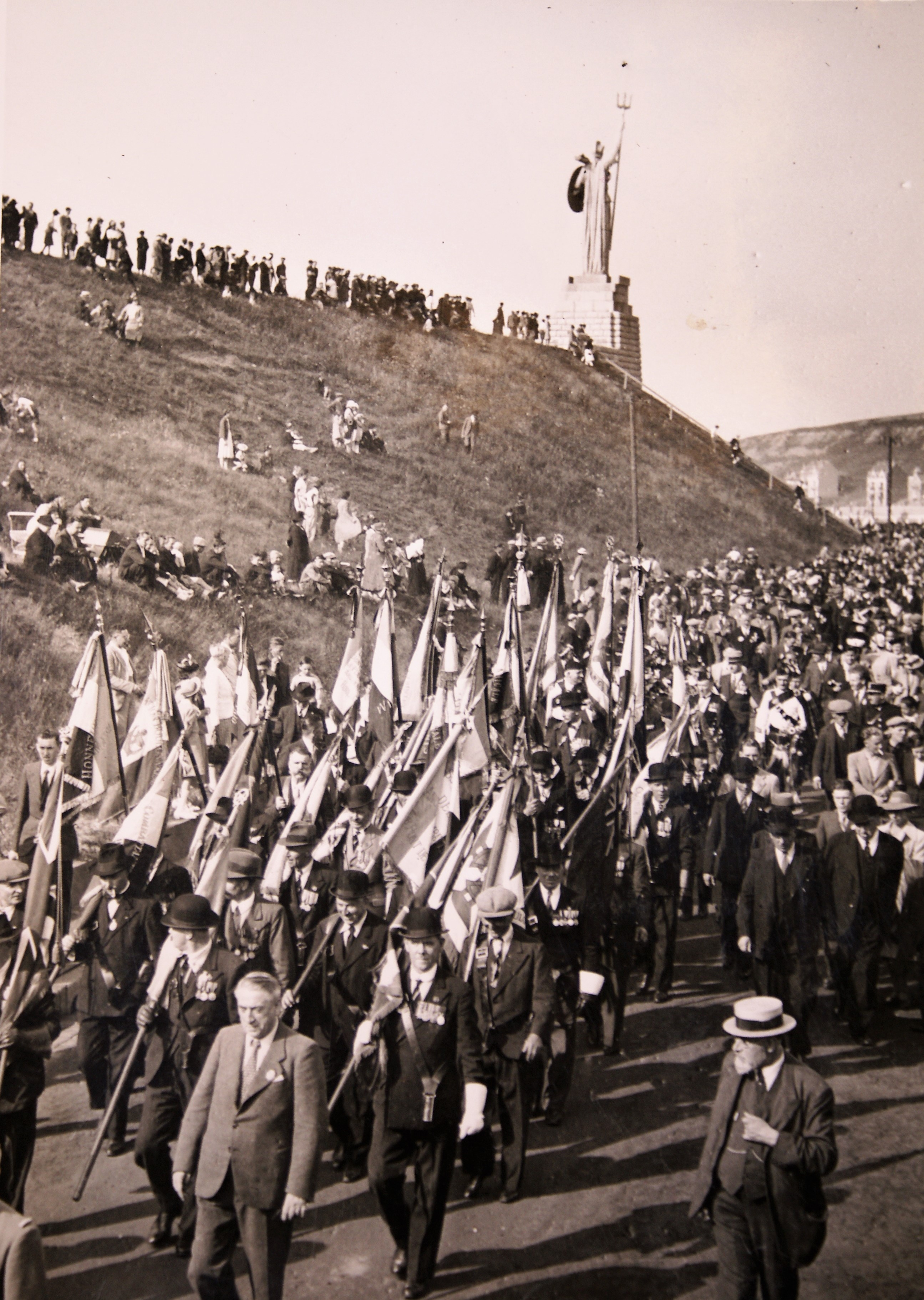 photo prise aux Archives Municipales de Boulogne sur Mer, référence : 61Fi230